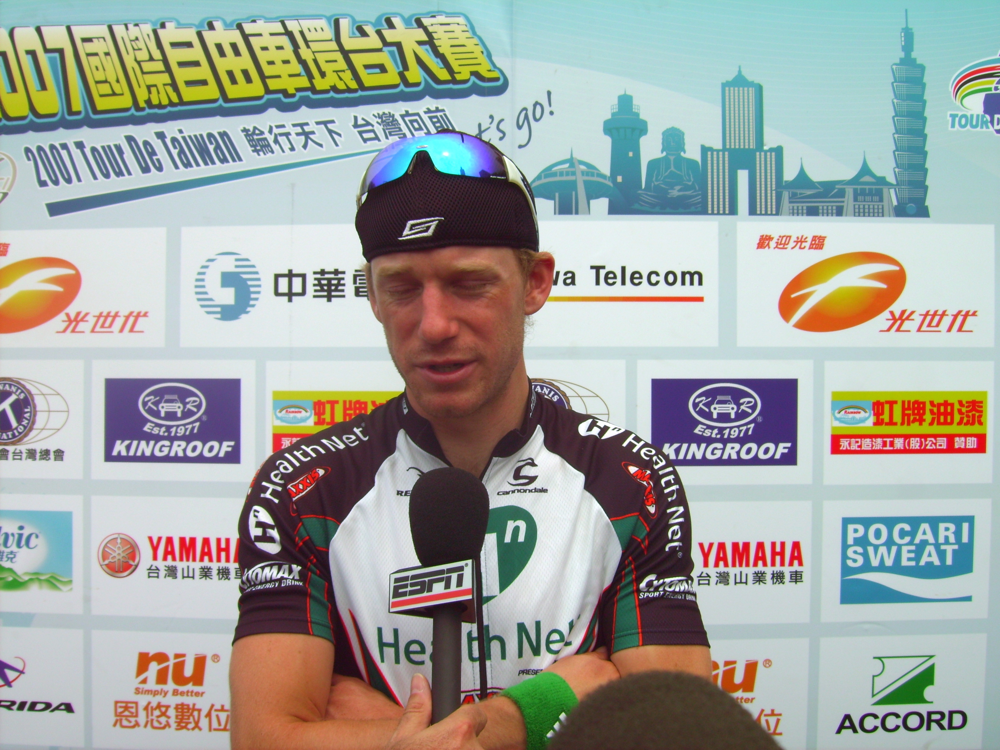 Tour de Taiwan 2007: American cyclist Milne Shawn.